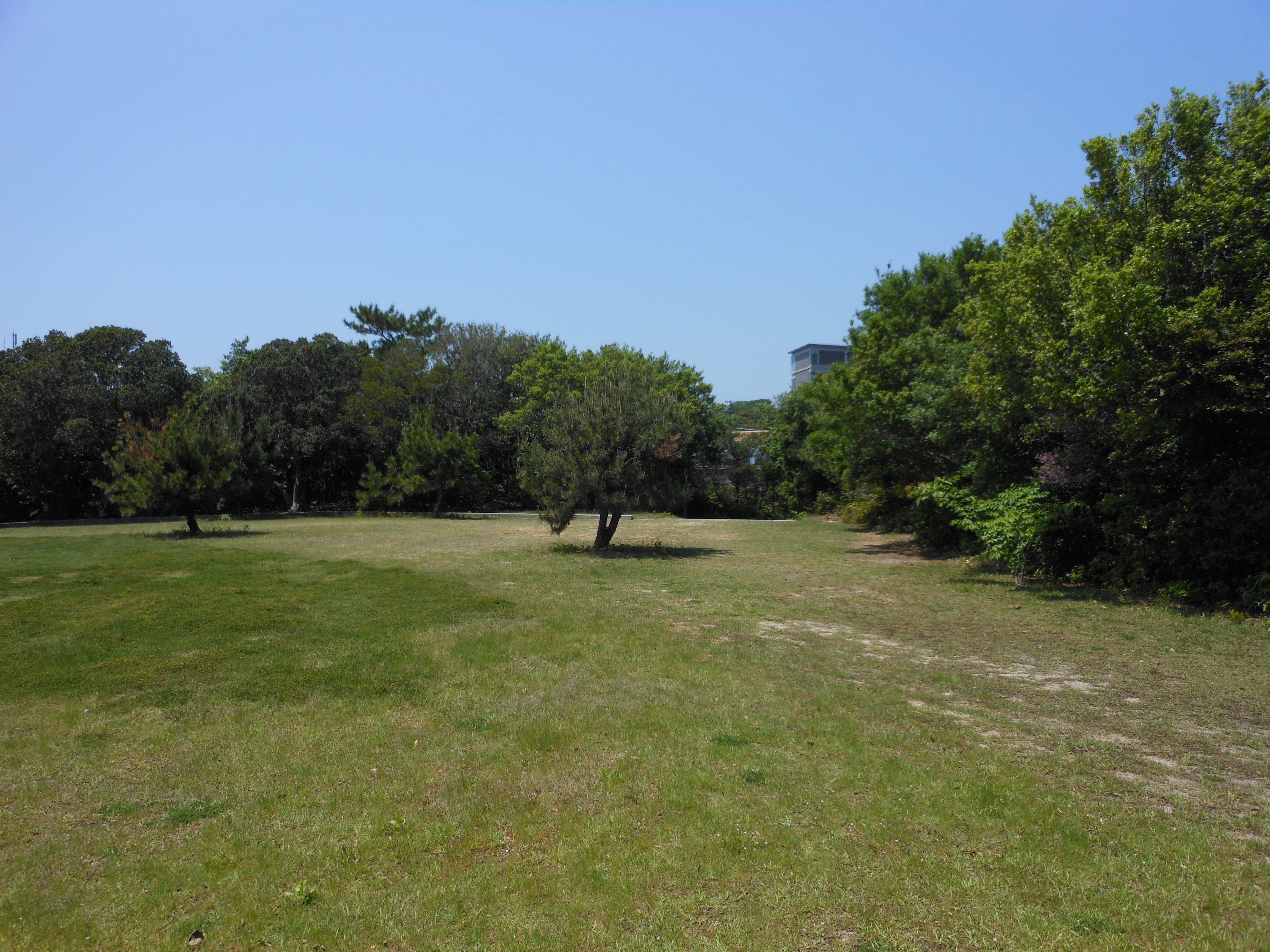 This is Maruyama Park in Shima, Mie, Japan.